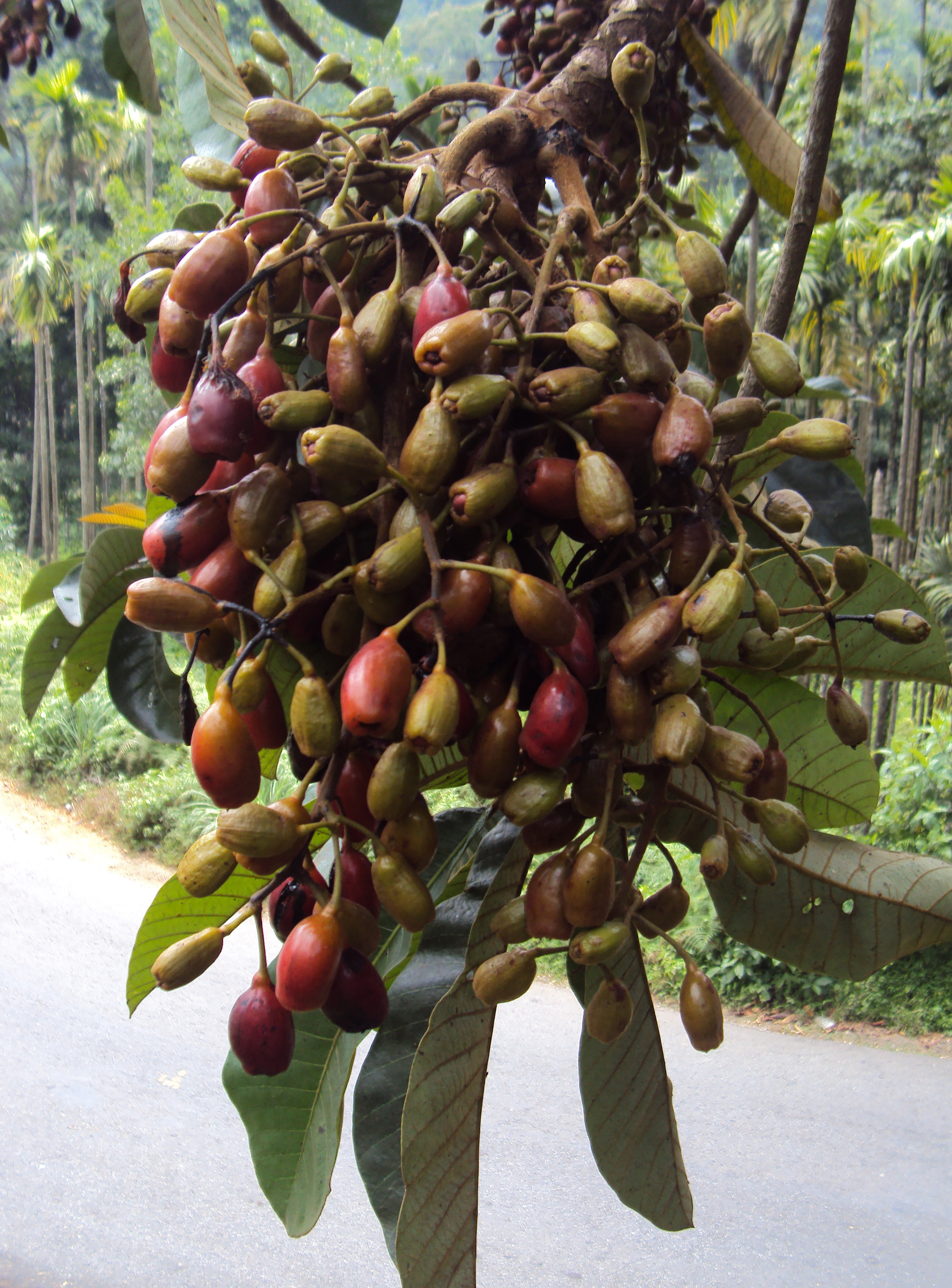 Holigarna grahamii